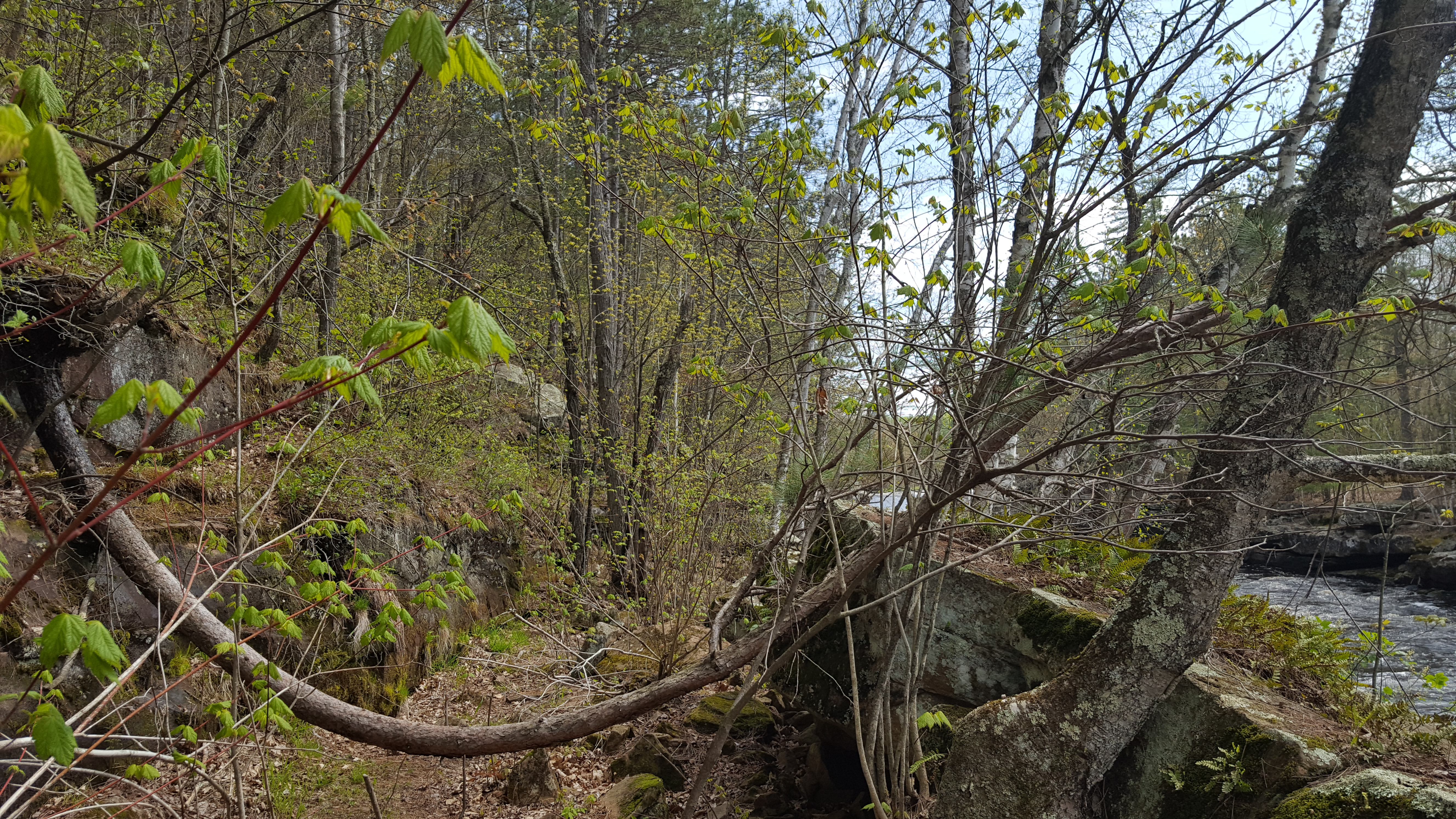 This is an image taken of a tree from Central Minnesota. The tree was on the face of a hill and had blown over in a previous storm or fell over due to erosion in the soil surrounding it. The tree continue to grow however, and because it was horizontal, it's growth exhibited the phenomenon known as gravitropism which can be seen in its arched growth.